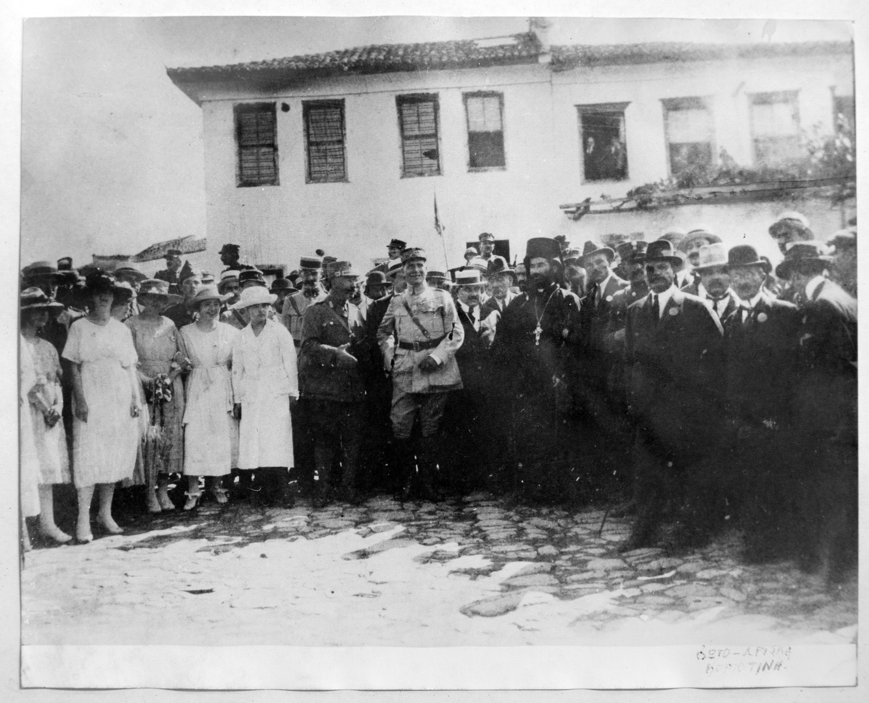 14 May 1920: Historical image of the liberation of Komotini from the Bulgarians, Rhodope, Thrace, Greece.